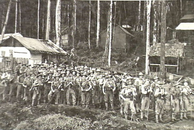 Australian soldiers from 'A' Company, 2/1st Machine Gun Battalion rest at Skindewai, on the march from Bulolo to Nassau Bay, August 1943